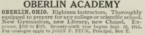 Classified ad for Oberlin Academy from the Saturday Evening Post, July 29, 1911, Page 38 (Schools & Colleges). Text reads: OBERLIN ACADEMY OBERLIN, OHIO. Eighteen Instructors. Thoroughly equipped to prepare for any college or scientific school. New Gymnasium, new Library, new Chapel. Expenses $200 to $325. Seventy-ninth year begins Sept. 20, 1911. For catalogue apply to JOHN F. PECK, principal, Box T.